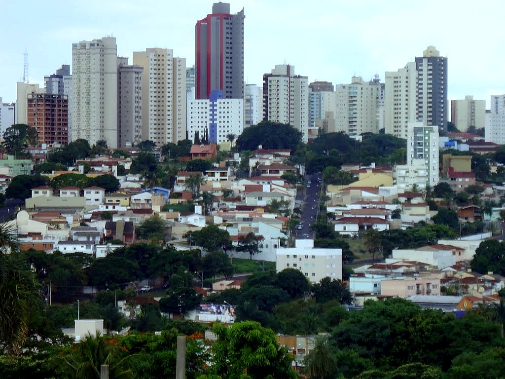 Central Town of Uberlandia, Brazil.